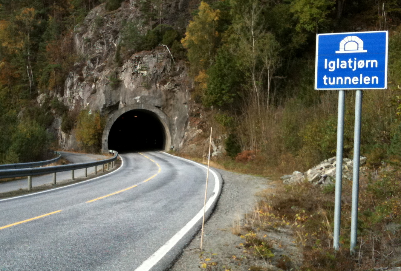 Iglatjørntunnelen in the municipality of Suldal in Rogaland, Norway